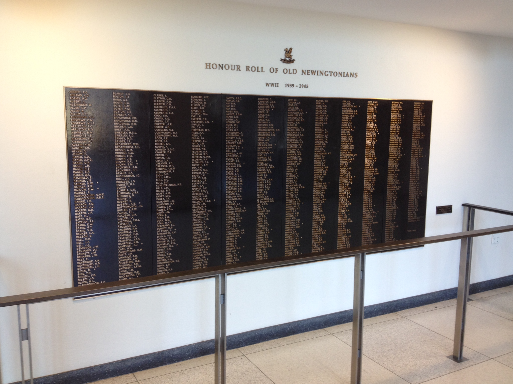 English